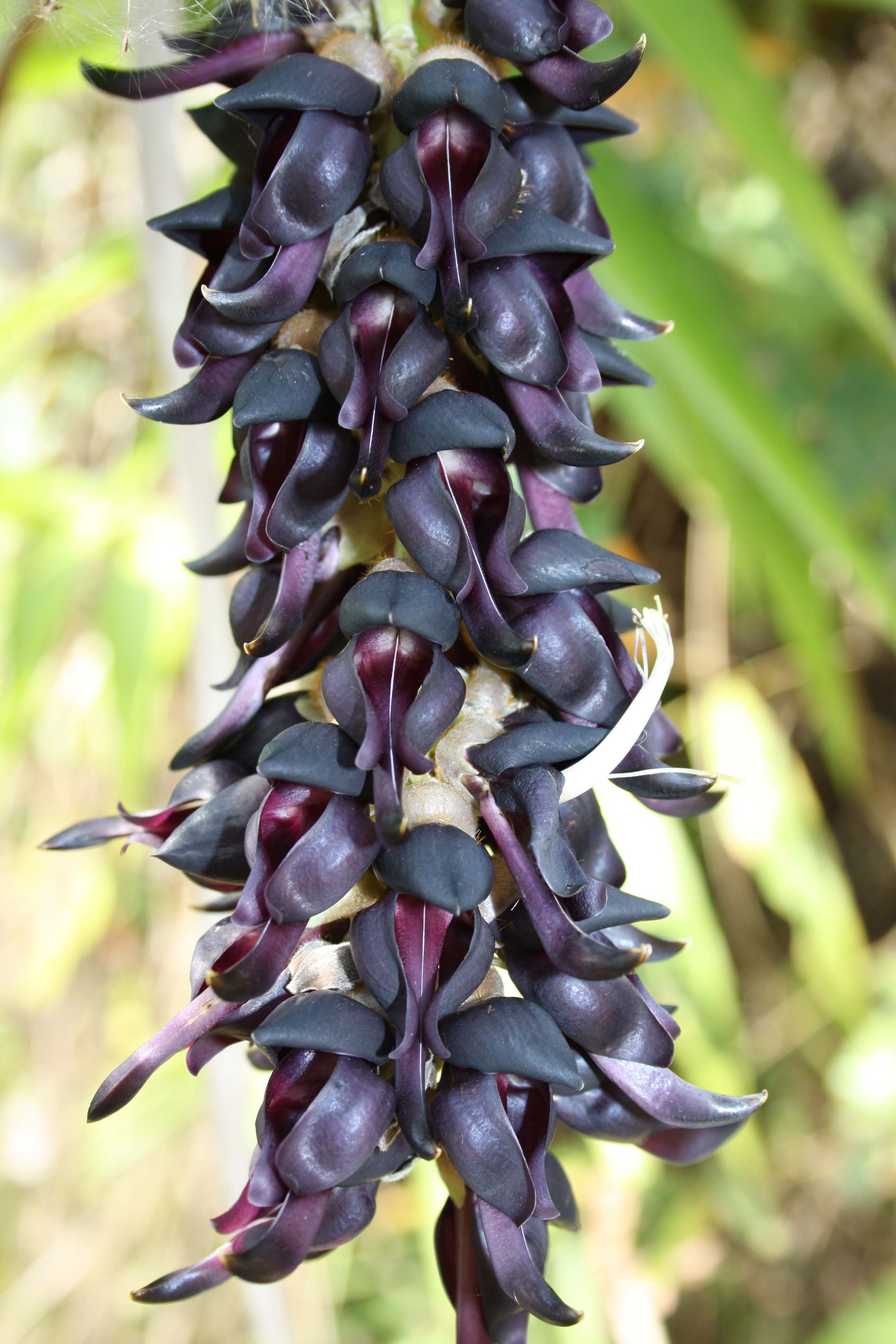 The beautiful inflorescence of the itchy Mucuna pruriens